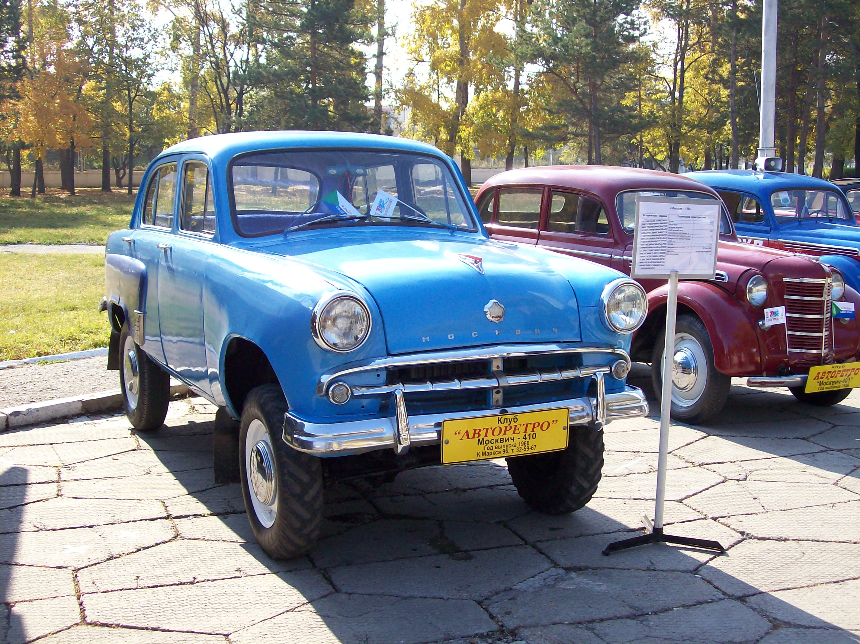 Москвич-410